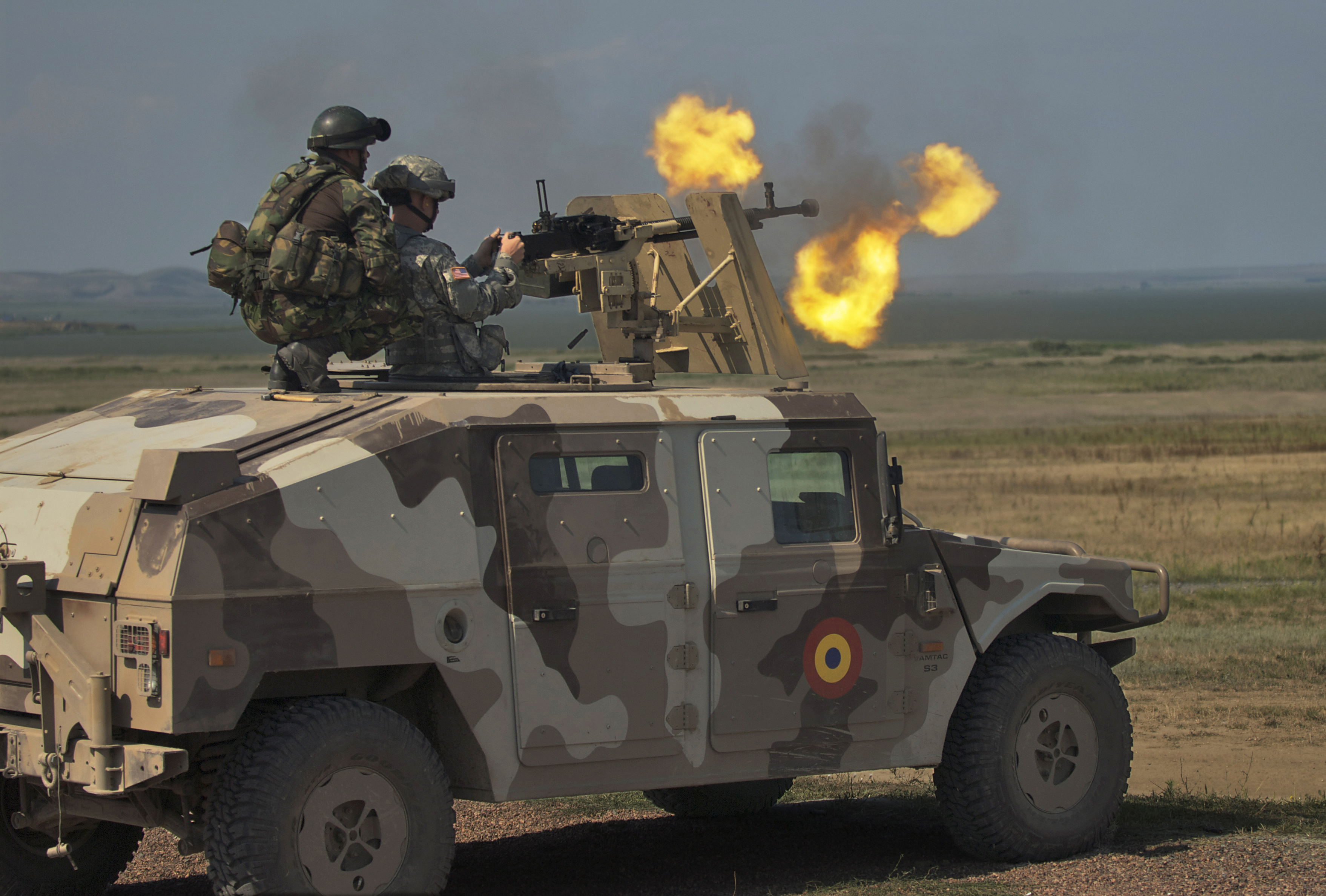 A U.S. Army soldier fires a Degtyarov-Shpagin Krupnokalibernyi Modernizirovanny (1946 pattern) -- a Russian/Soviet 12.7 mm heavy machine gun at the firing range at Babadag Training Area, Romania, August 13th. "Working with the Romanian Soldiers is great and the training has been well above par," Williams said. Tennessee Army National Guard Soldiers have been training side-by-side with Romanian Land Forces on a variety of Army Warrior Tasks and small-unit infantry tactics for their annual two-week training time. Task Force - East Photo by Sgt. Marla Keown Date: 2009-08-15 Location: Babadag Training Area, RO